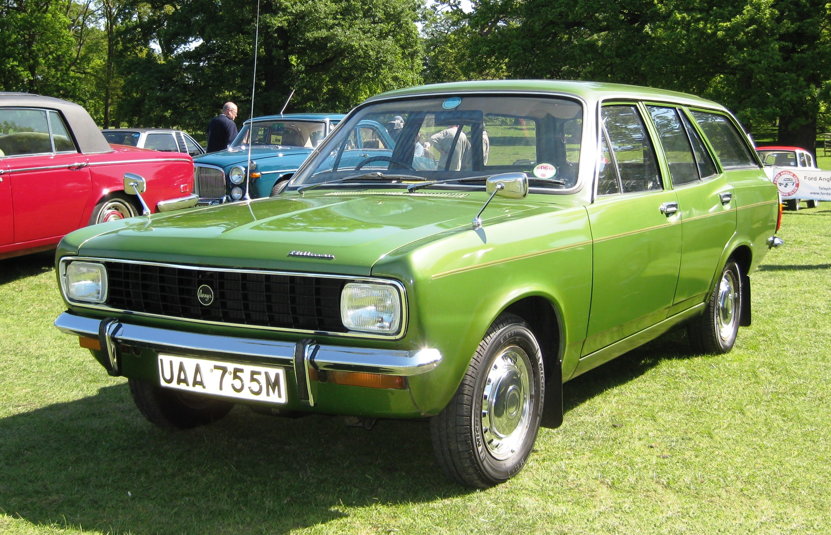 Hillman Avenger 1500 estate 1974 at Woburn